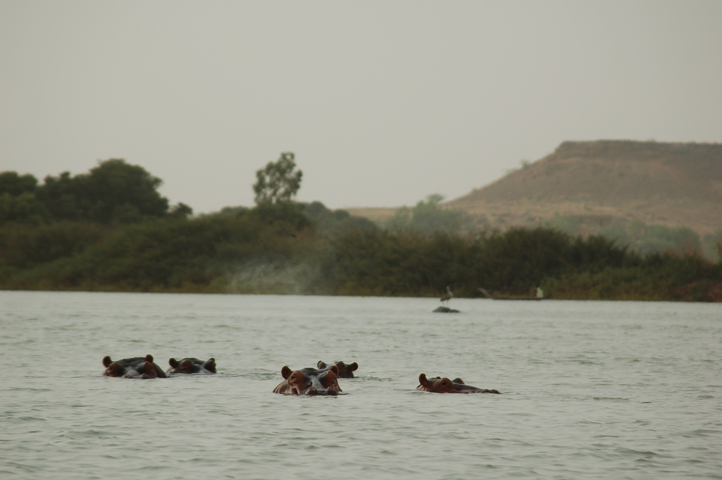 Hippopotamus (Hippopotamus amphibius) in a river in the West Africa nation of Niger. Photograph is in set from a visit to the Koure area southeast of Niamey. Taken with others in the set, it seems probable that this shows the Niger River which, while south of Koure, is on the route of giraffe photographed in the rest of the set, the nearest animal reserve (Dosso Partial Reserve), and is the nearest large body of water.